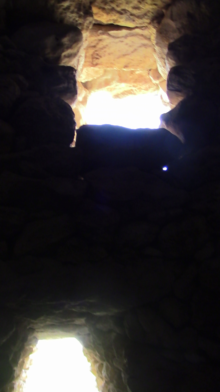 A Tazota exit and window, Municipality of Sidi Abed, Province of el-Jadida, Morocco